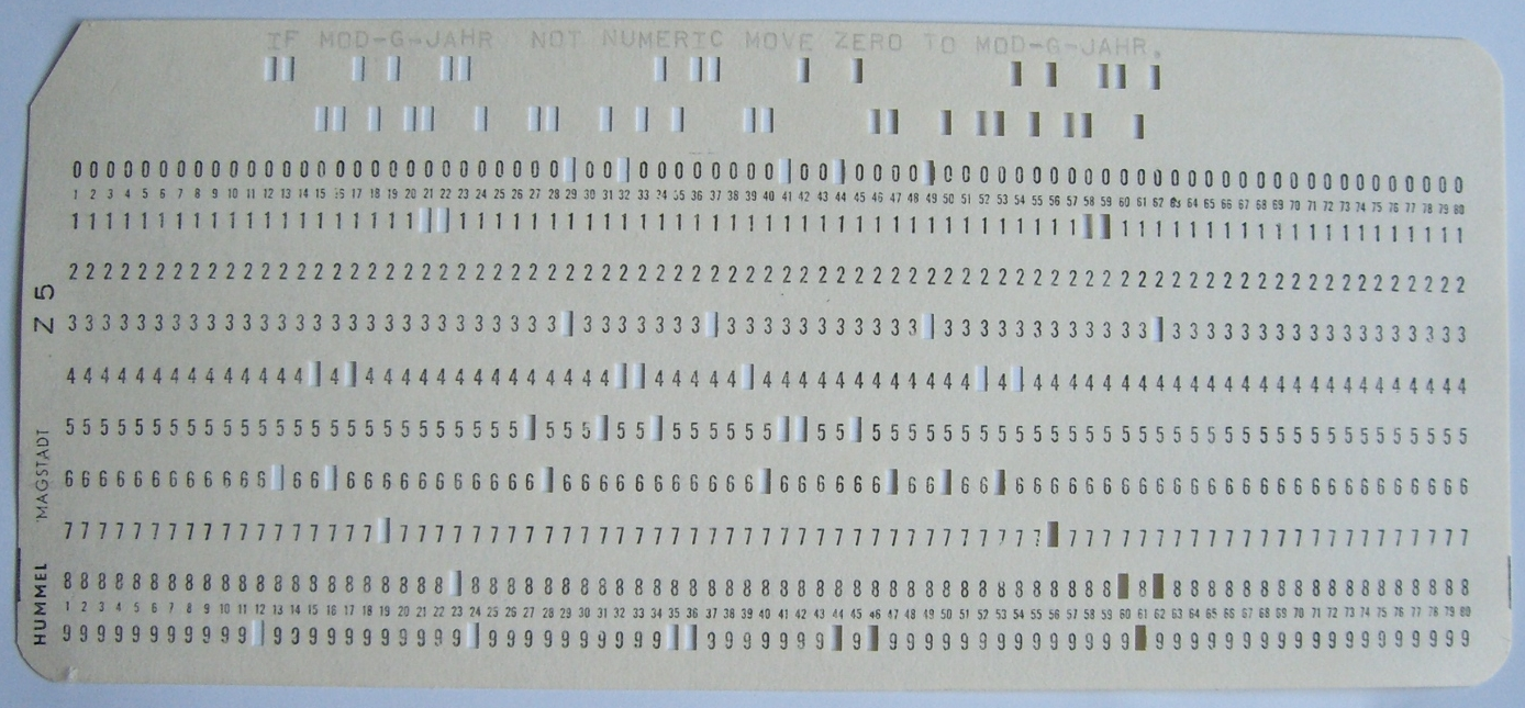 An actual punch card with a line of COBOL programming on it.